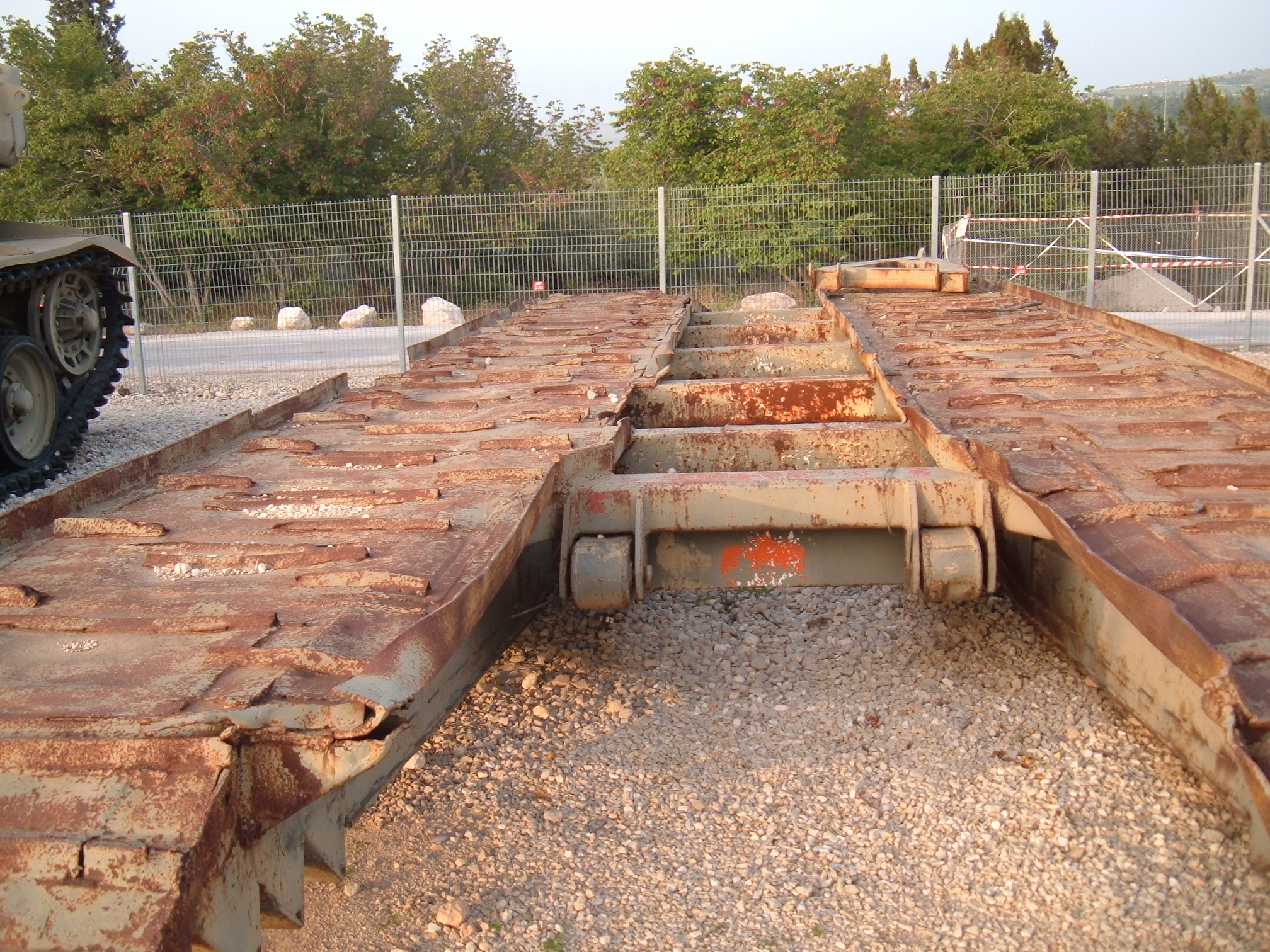 I took this pic.